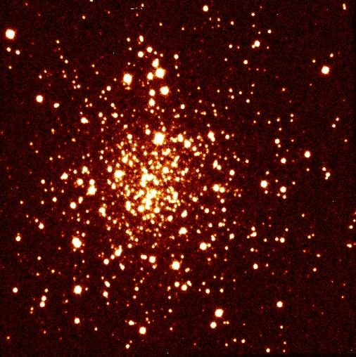 Globular Cluster NGC 1261: SOFI infrared multimode instrument on the ESO 3.58-m New Technology Telescope at La Silla, Chile, a 12-second exposure through a H-filter at 1.65 micron. See here.